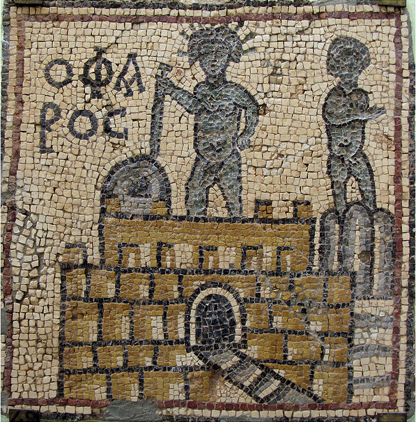 Mosaic Lighthouse of Alexandria: was found in the Qasr Libya in Libya, which was known by several names including history and Olbia Theodorias, This is a painting that was left over to show the form of lighthouse after the quake, which destroyed the lighthouse.